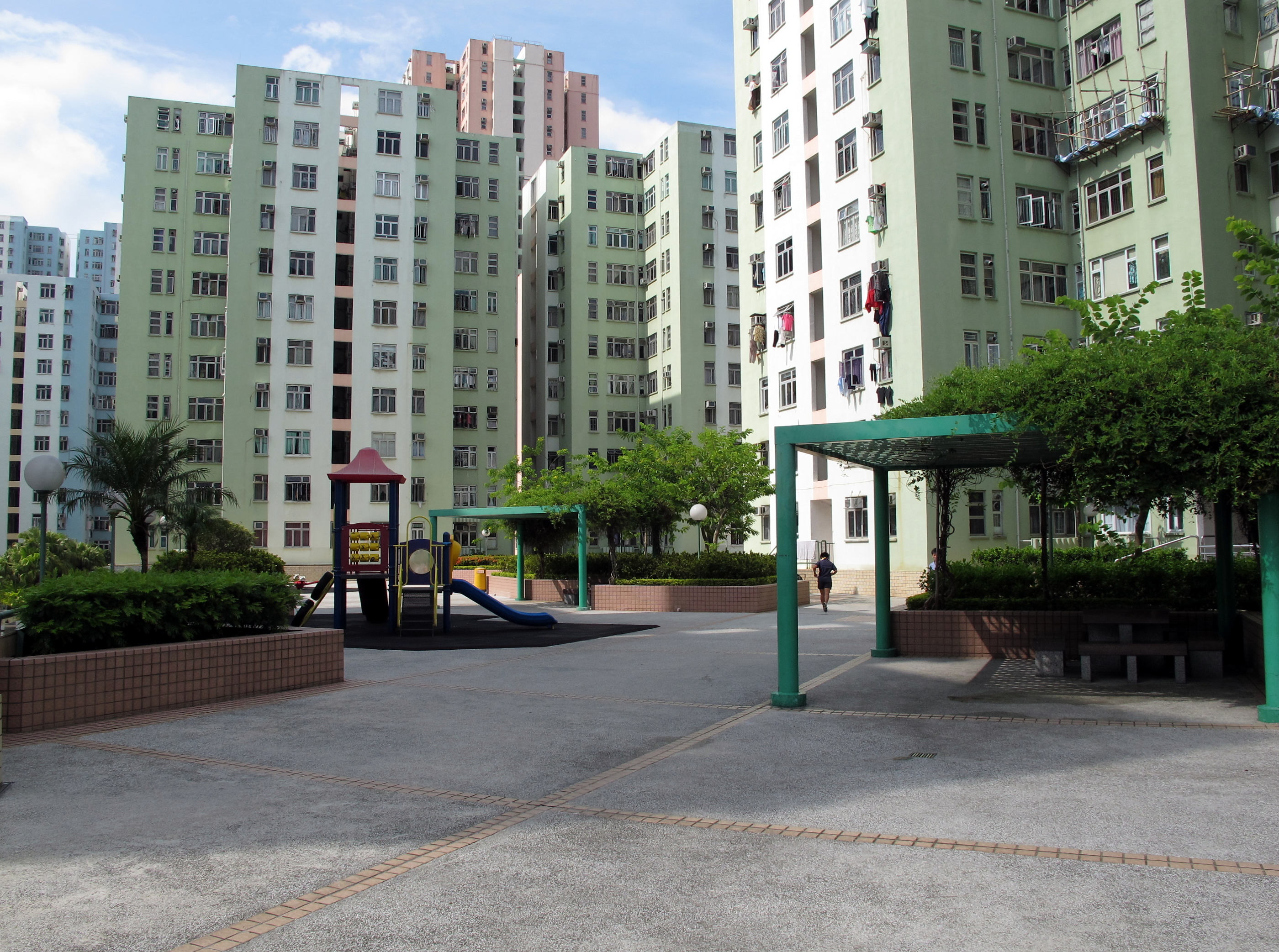 Telford Garden Podium have Playground facilities